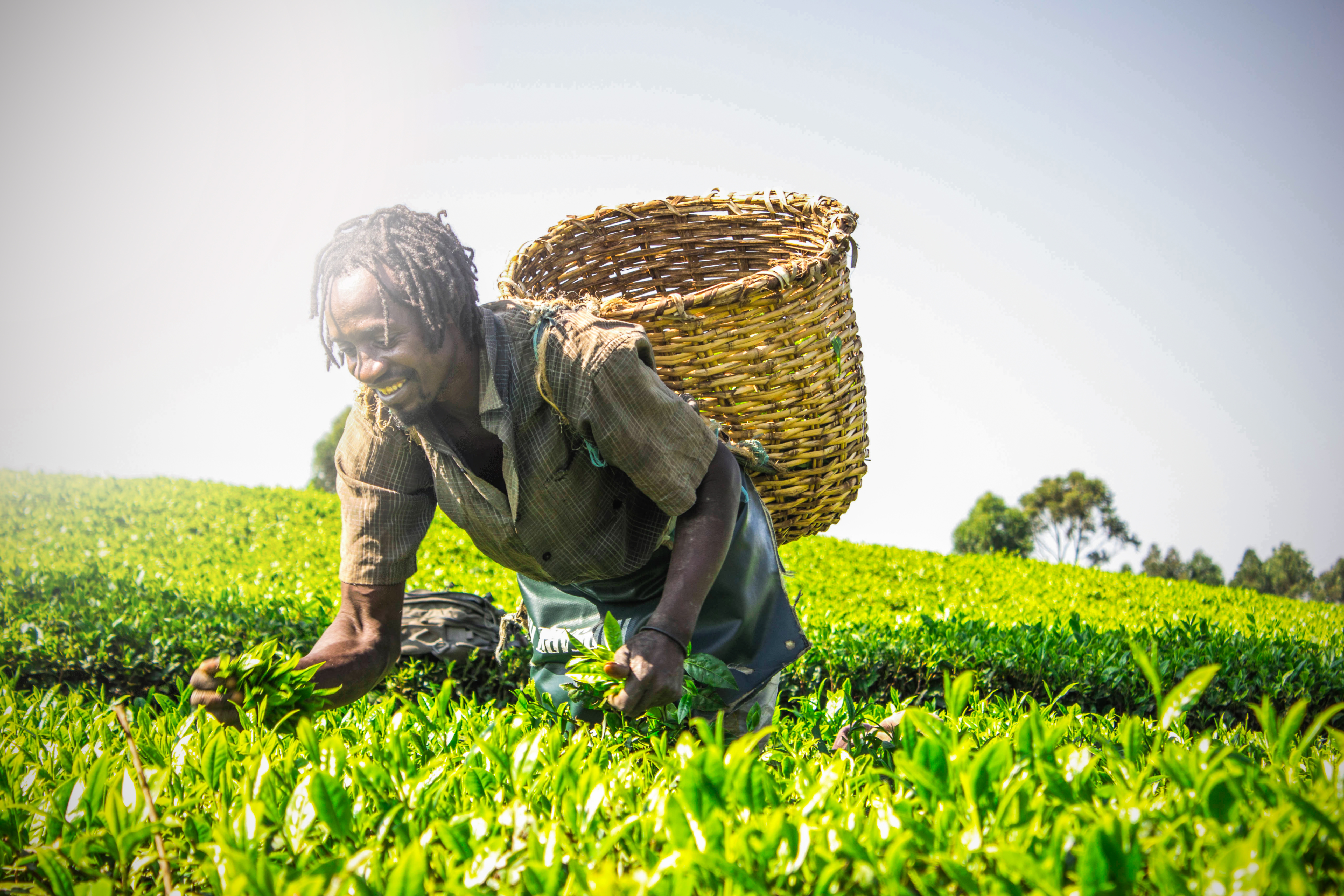 A photo of a man who has been working for a tea industry in Kenya for a long time in order to support his family. This is an image of "African people at work" from Kenya